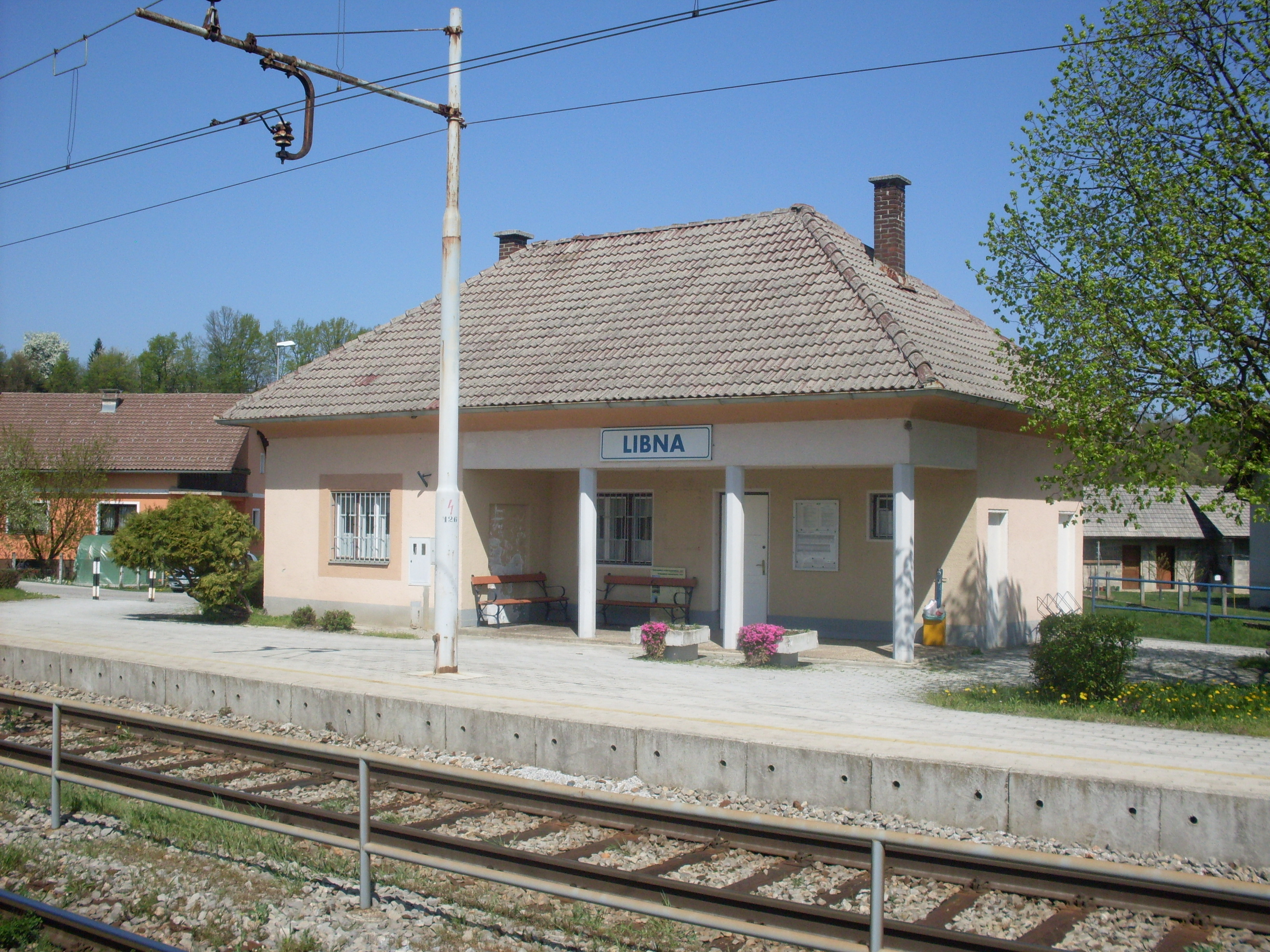 Rail halt Libna, actually located in Stari Grad near Krško.